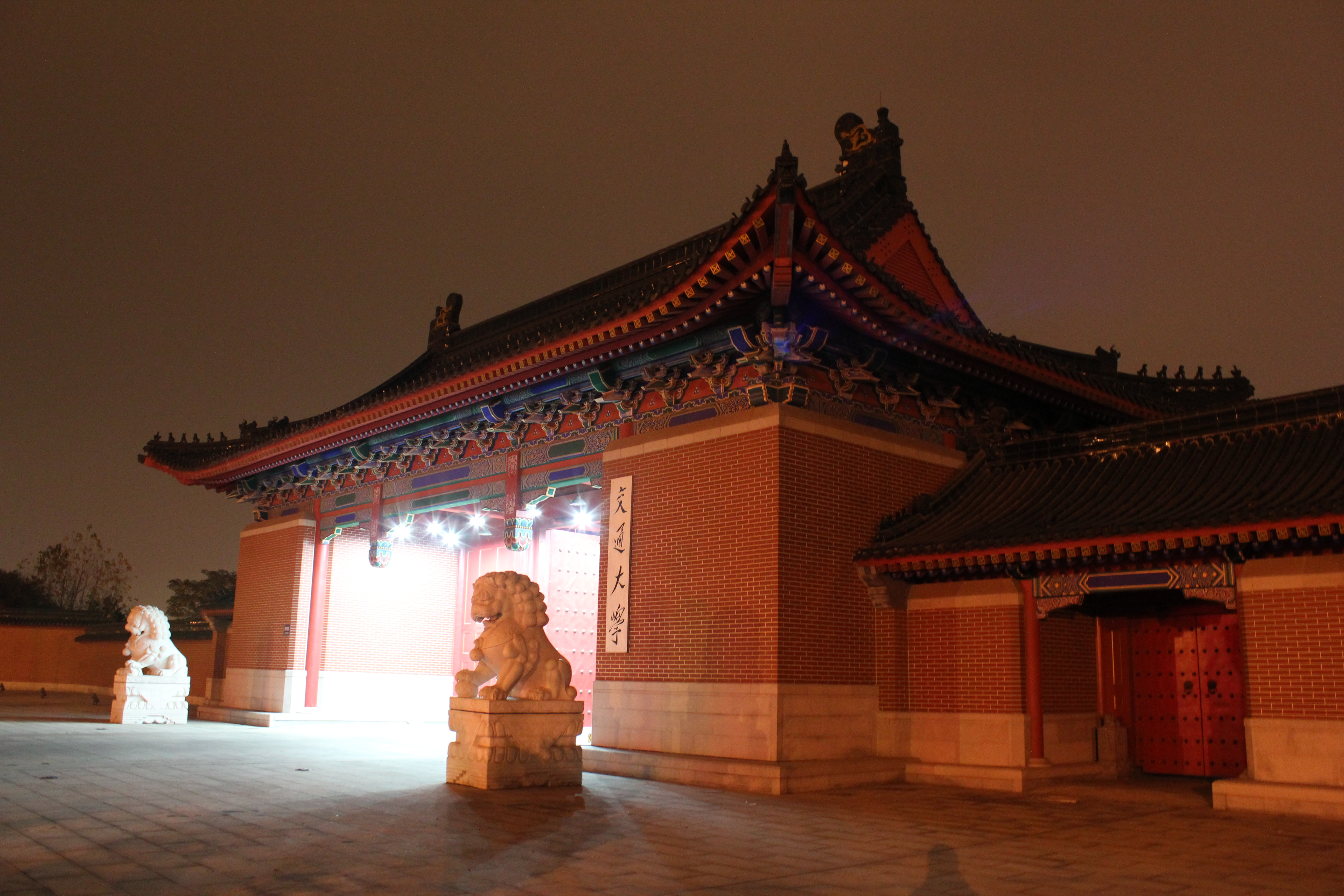 East gate of Shanghai Jiao Tong University Minhang Campus